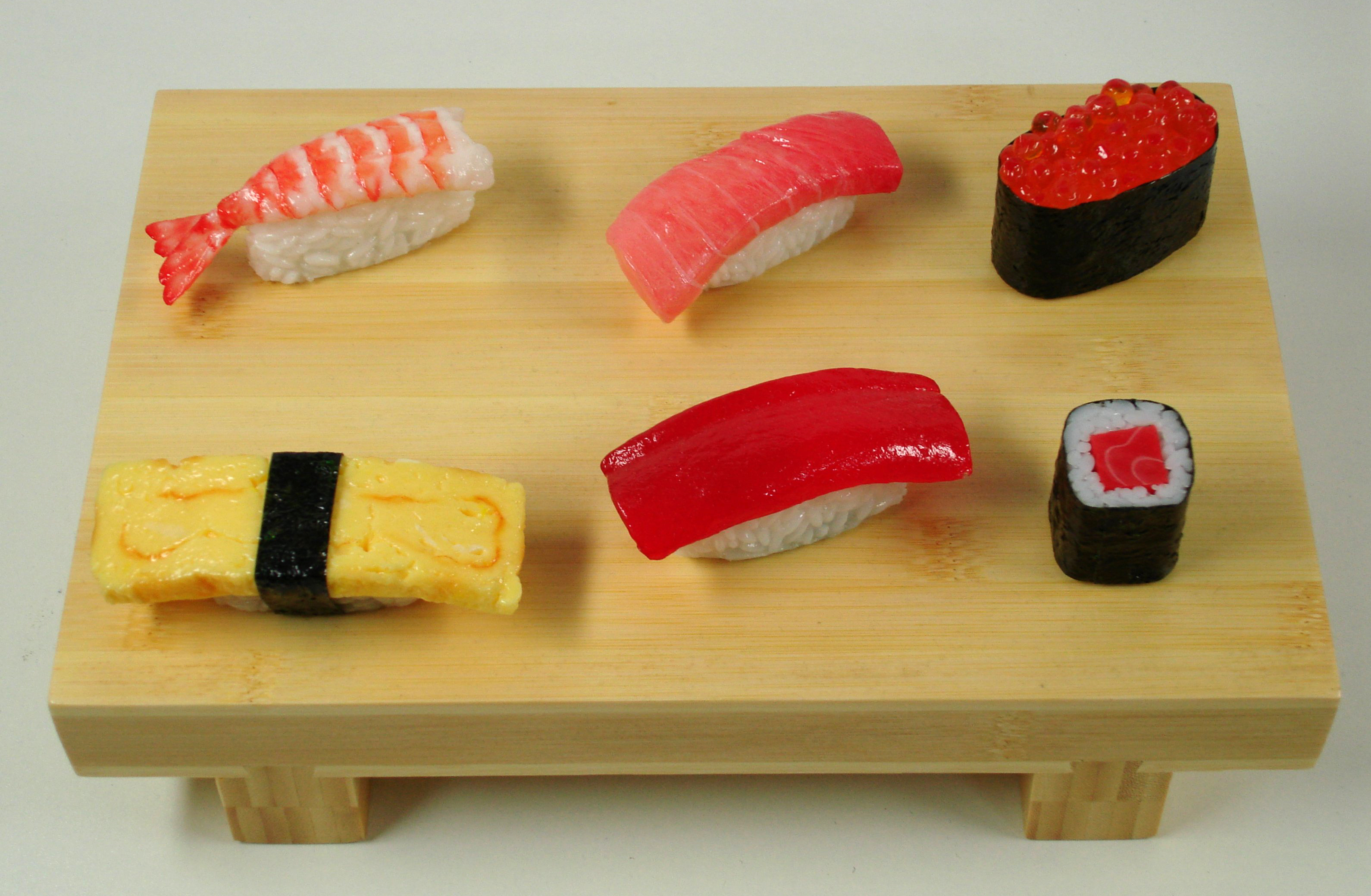 Some plastic sushi used for presentation in japanese restaurants